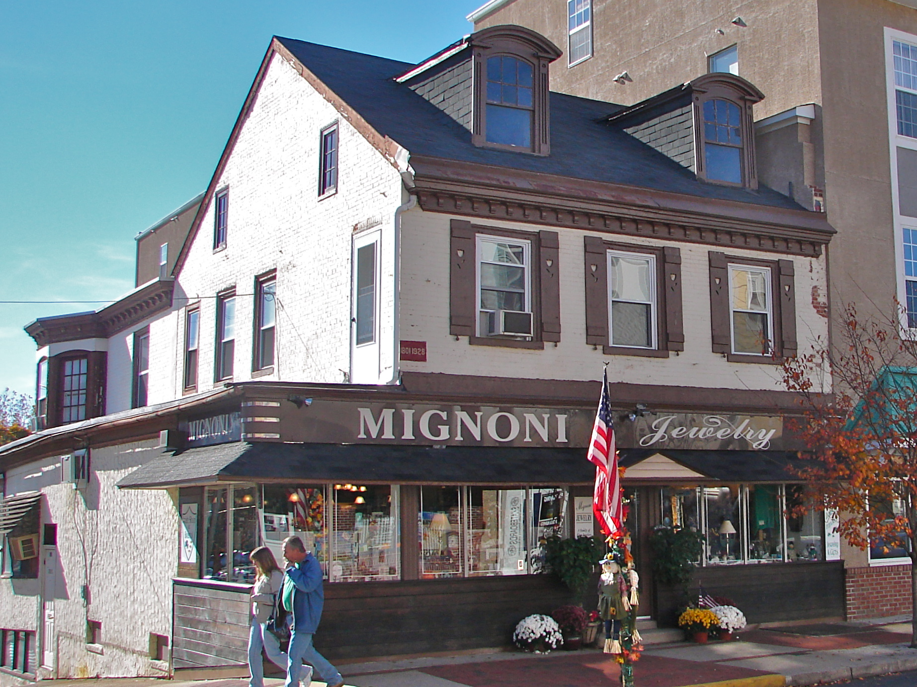 200 Mill Street, Bristol, Bucks County, Pennsylvania in the Bristol Historic District, which was listed on the NRHP on April 30, 1987. The HD is roughly bounded by Pond, Cedar, E. Lincoln Streets, the Delaware River, and E. Mill Street. This particular building was built as a residence in 1781 for Thomas Belford, served as home to a long-time local doctor and later turned into a drug store. HD central coords are 40°5′53″N 74°51′10″W